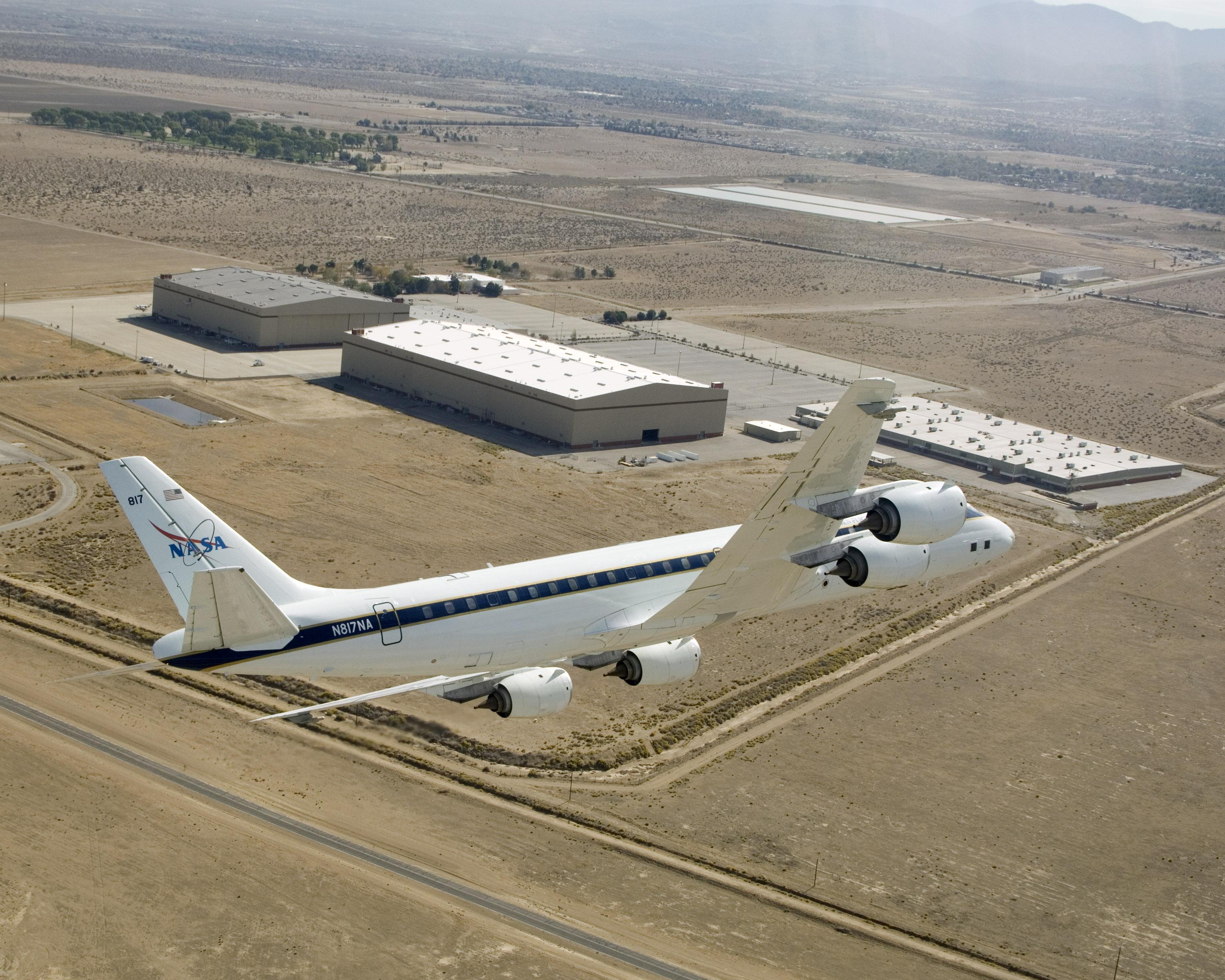 NASAs DC-8-72 banked over its new home Dryden Aircraft Operations Facility at Air Force Plant 42 before it is arriving.